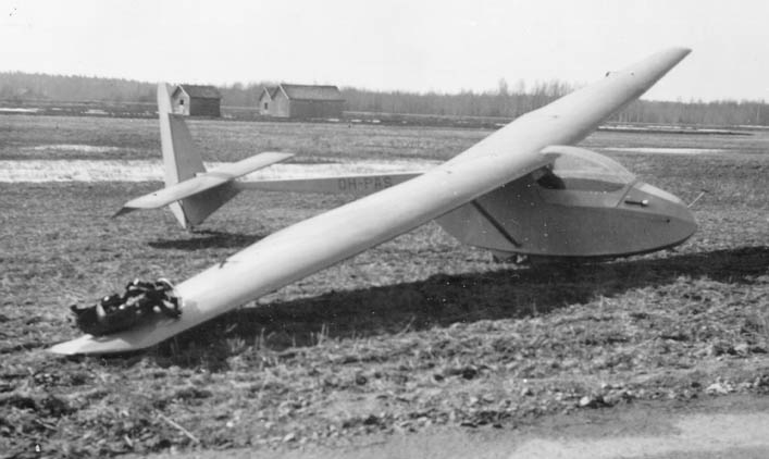 OH-PAR during spring in early 1960s.